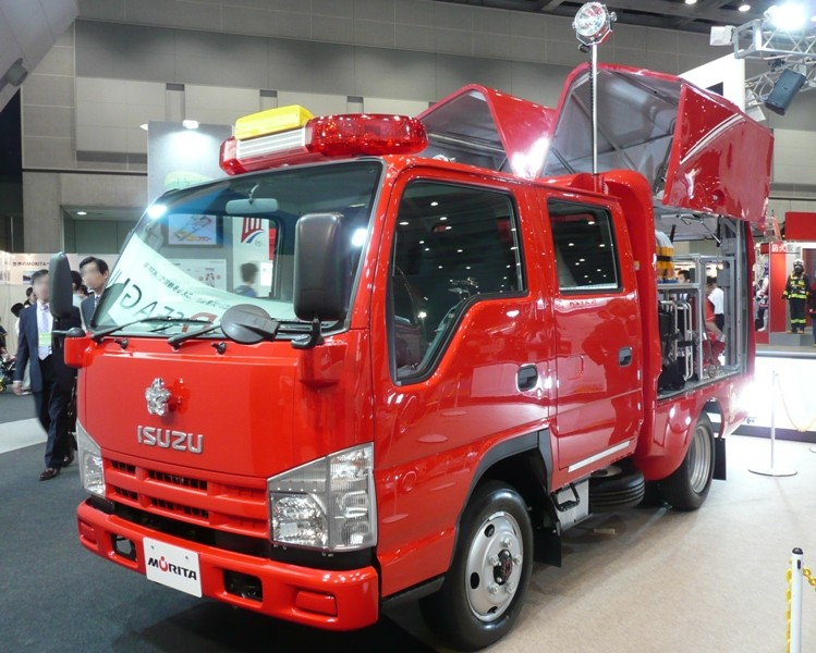 Isuzu Elf Fire engine. (Double cab, Standard type)